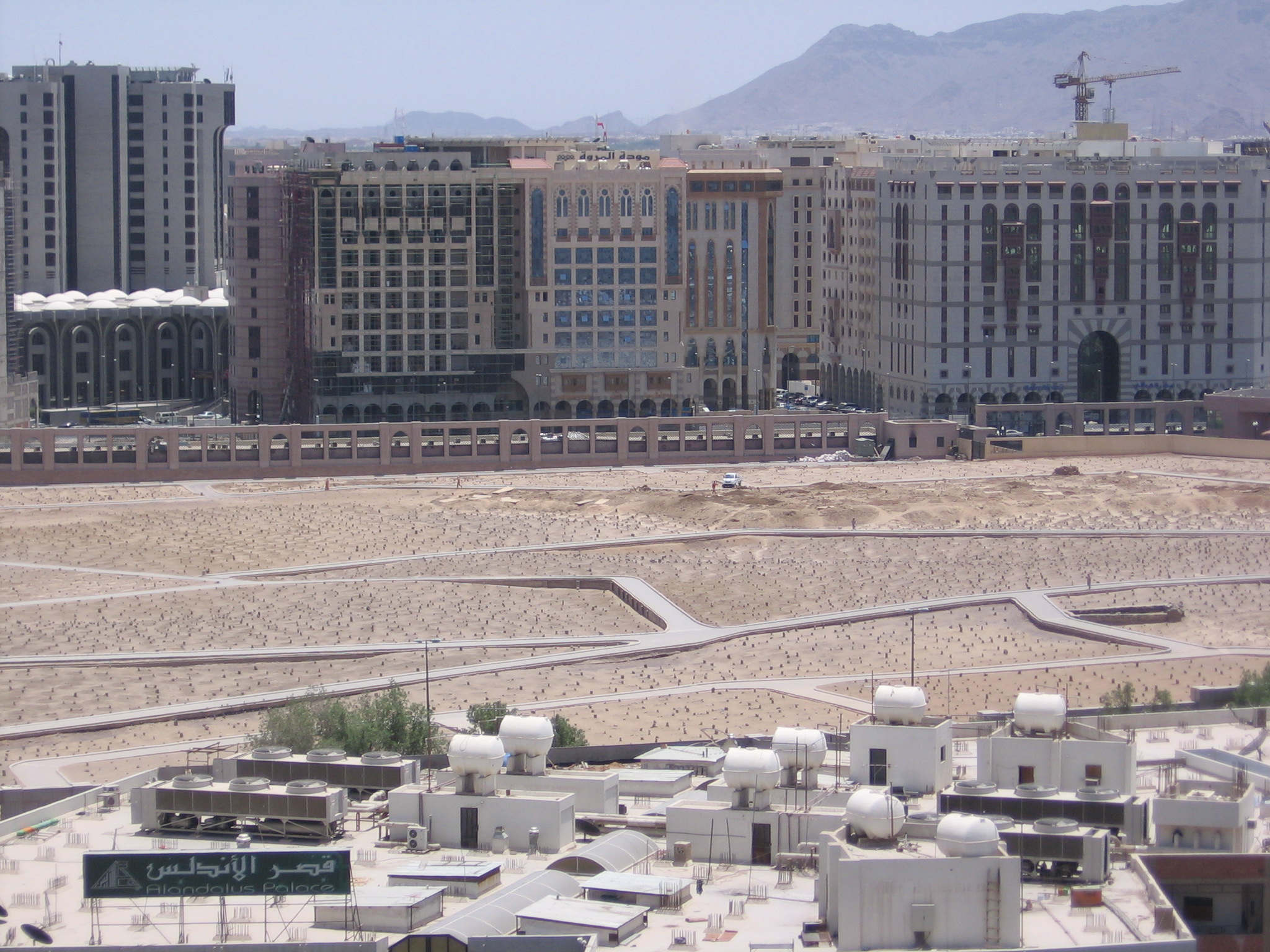 Jannat al-Baqi in Medina Saudi Arabia